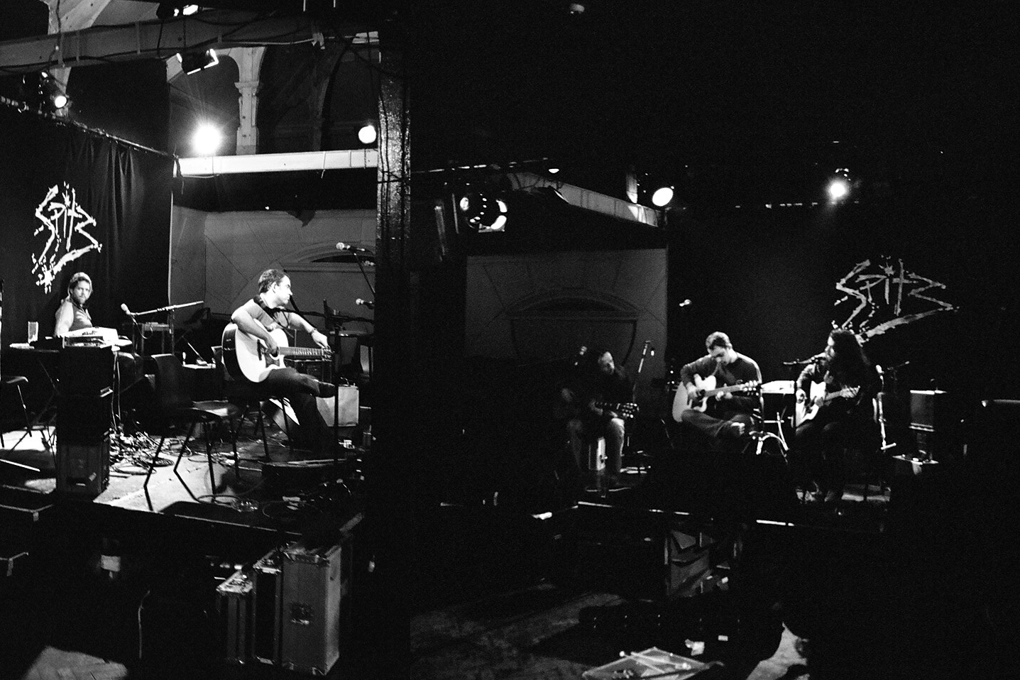 @ the Spitz